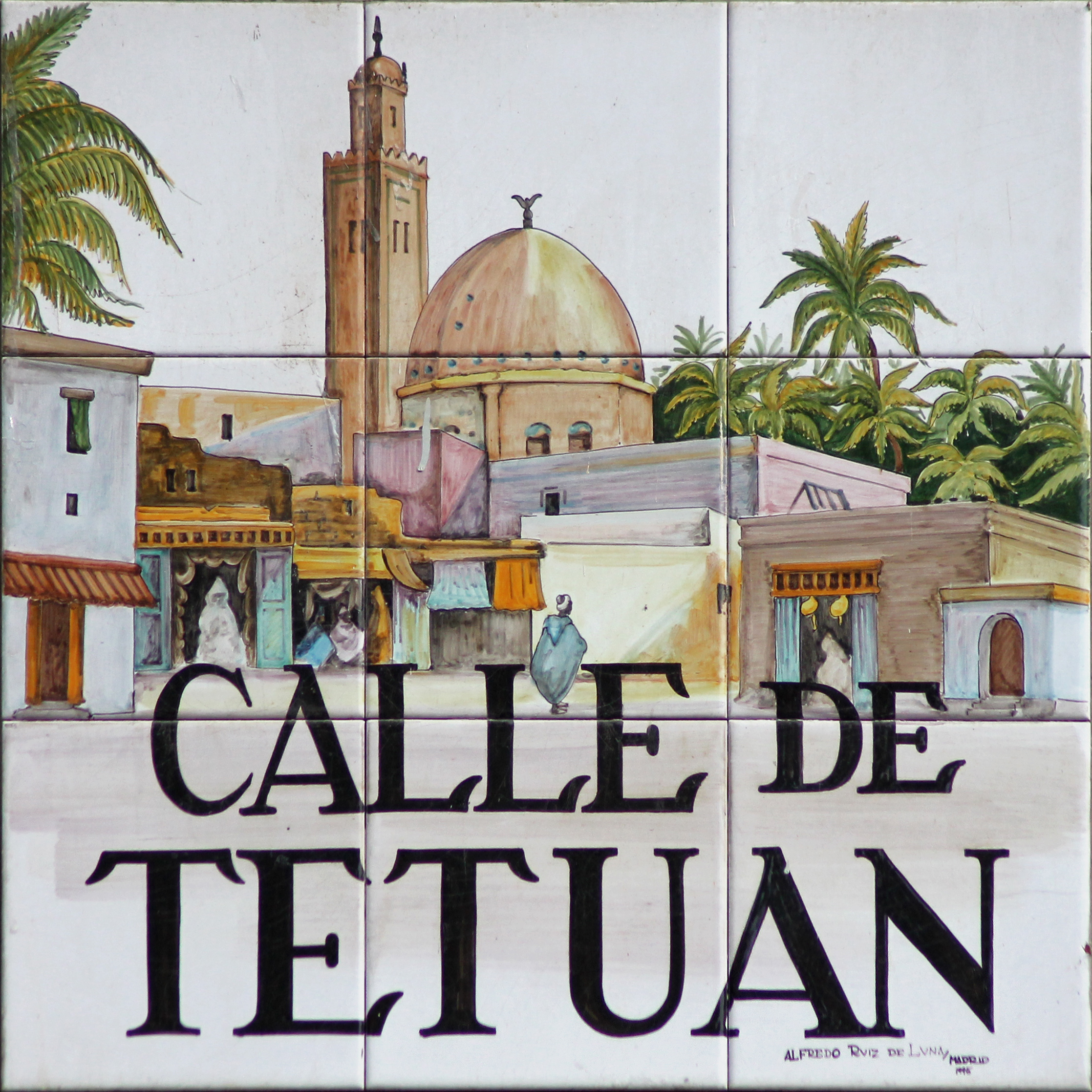 Sign of Calle de Tetuán (street) in Madrid (Spain).